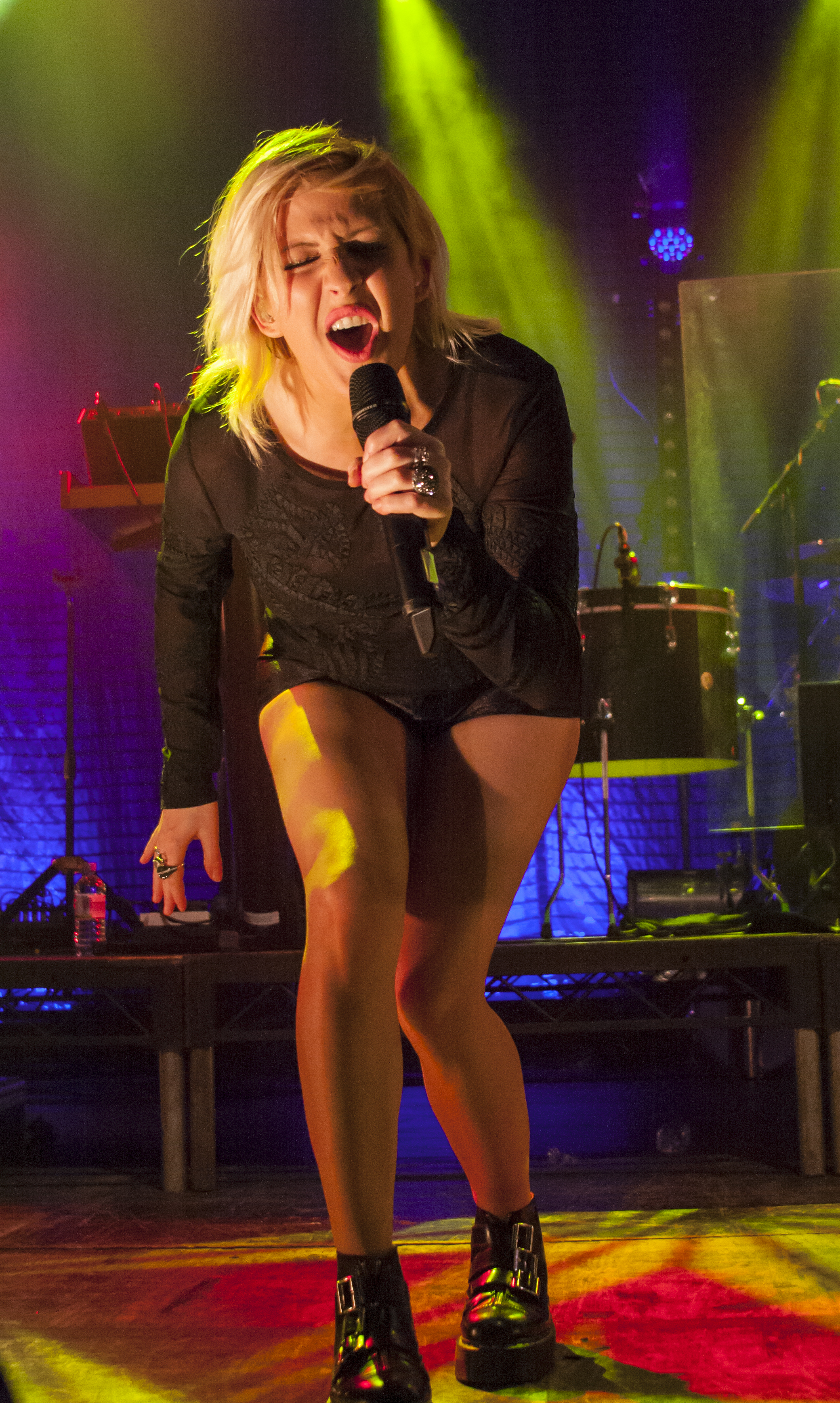 Ellie Goulding performing at the Manchester Academy on 17 December 2012.